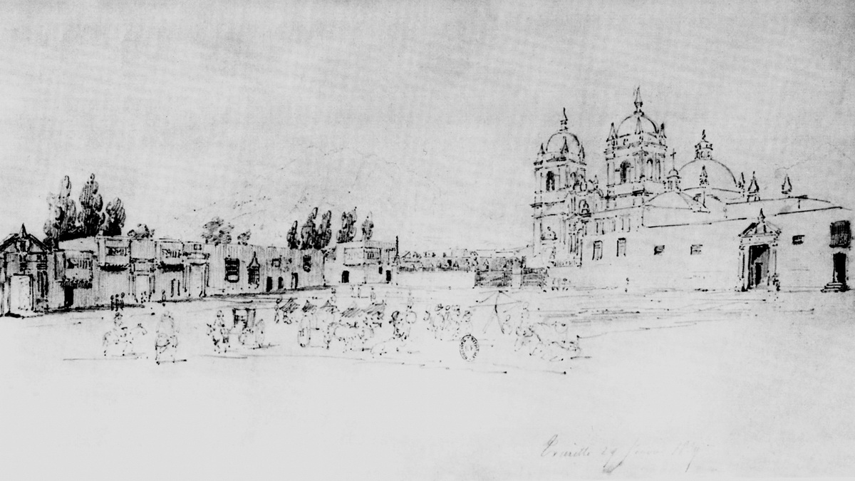 Drawing of the Historic Centre of Trujillo, c. 1839, by Léonce Angrand.